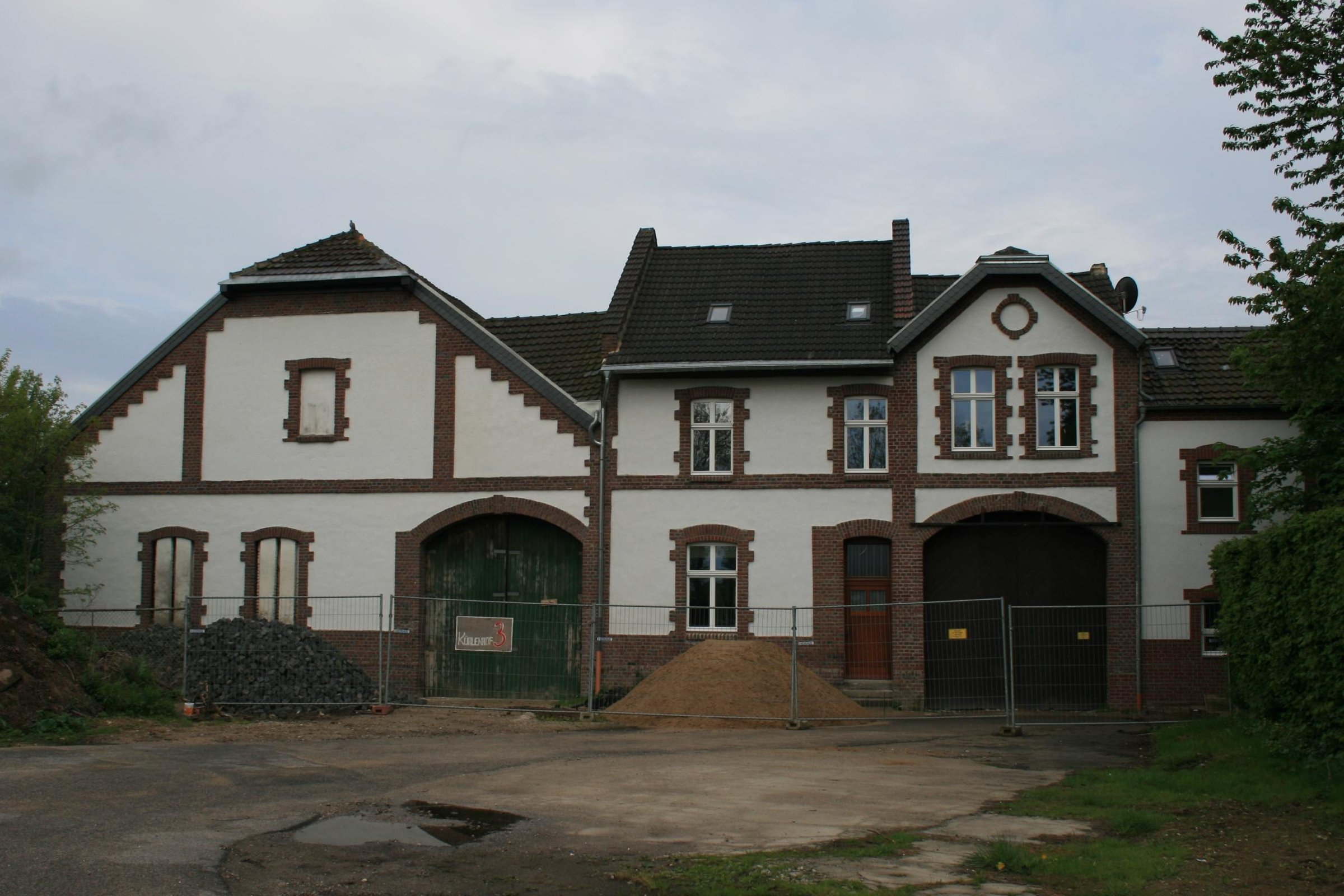 Cultural heritage monument No. K 058 in Mönchengladbach